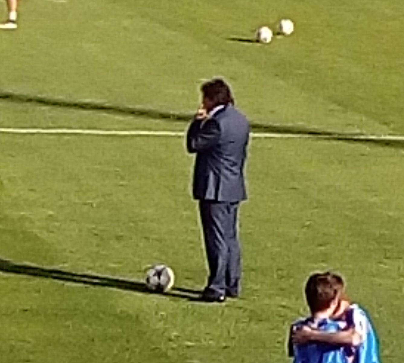 The coach Ilir Daja.